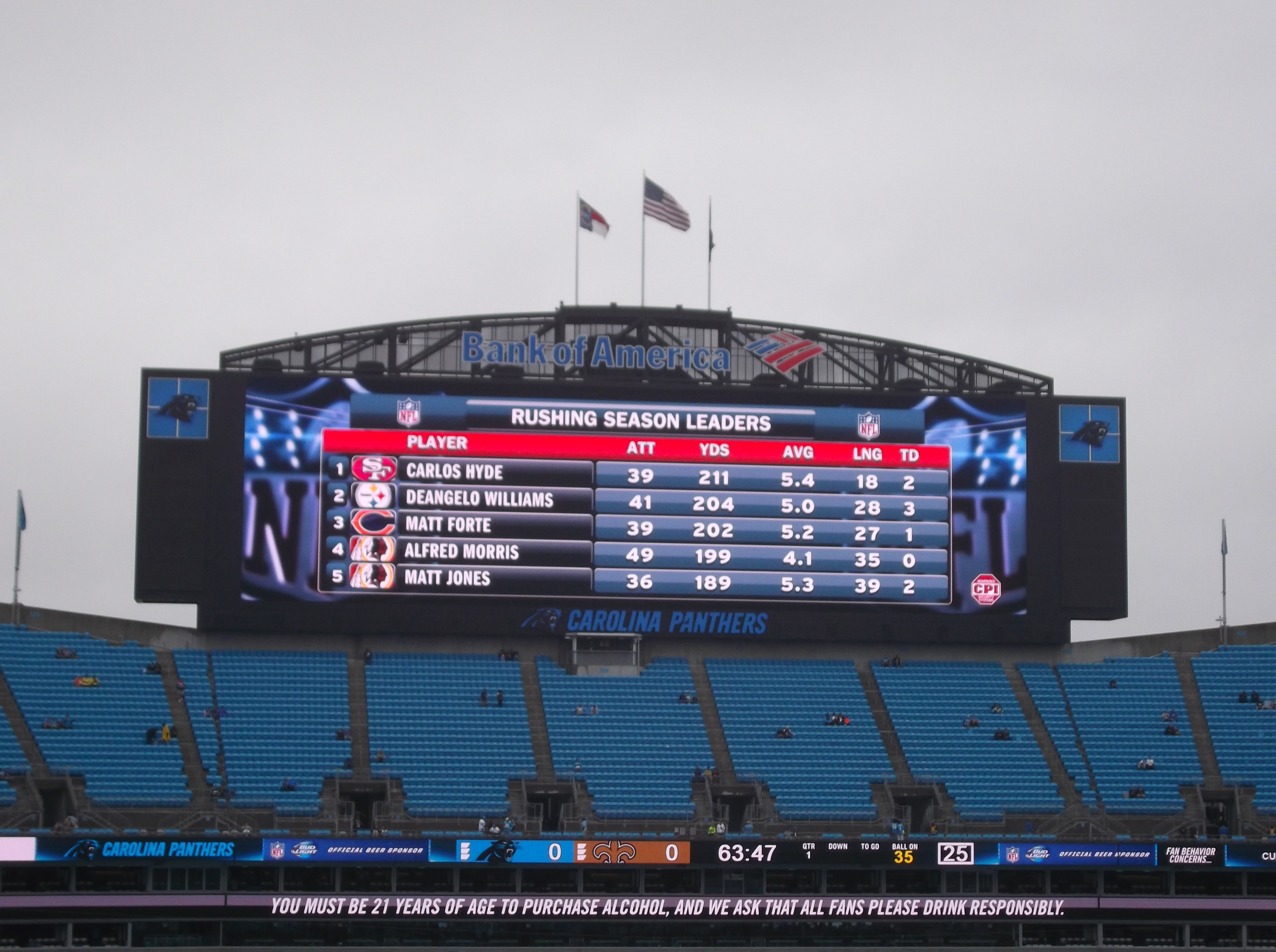 One of the new high-definition scoreboards at Bank of America Stadium.